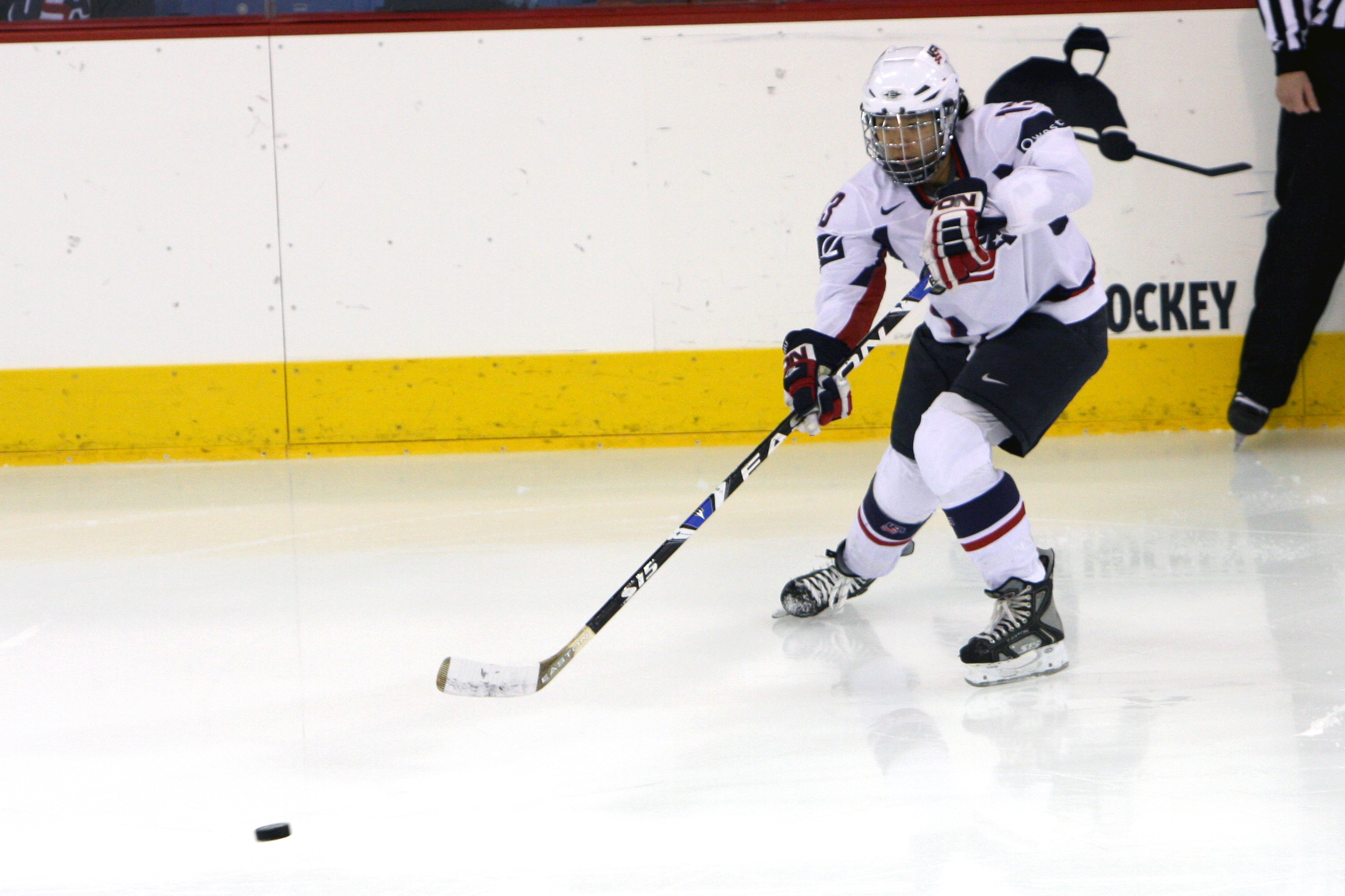 United States forward Julie Chu in a game against the ECAC All-Stars on January 3, 2010.